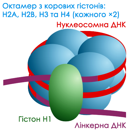 Nucleosome organization.